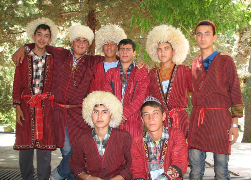 Iranian students from different provinces , 30 June 30 2013 in Baghrud - Nishapur